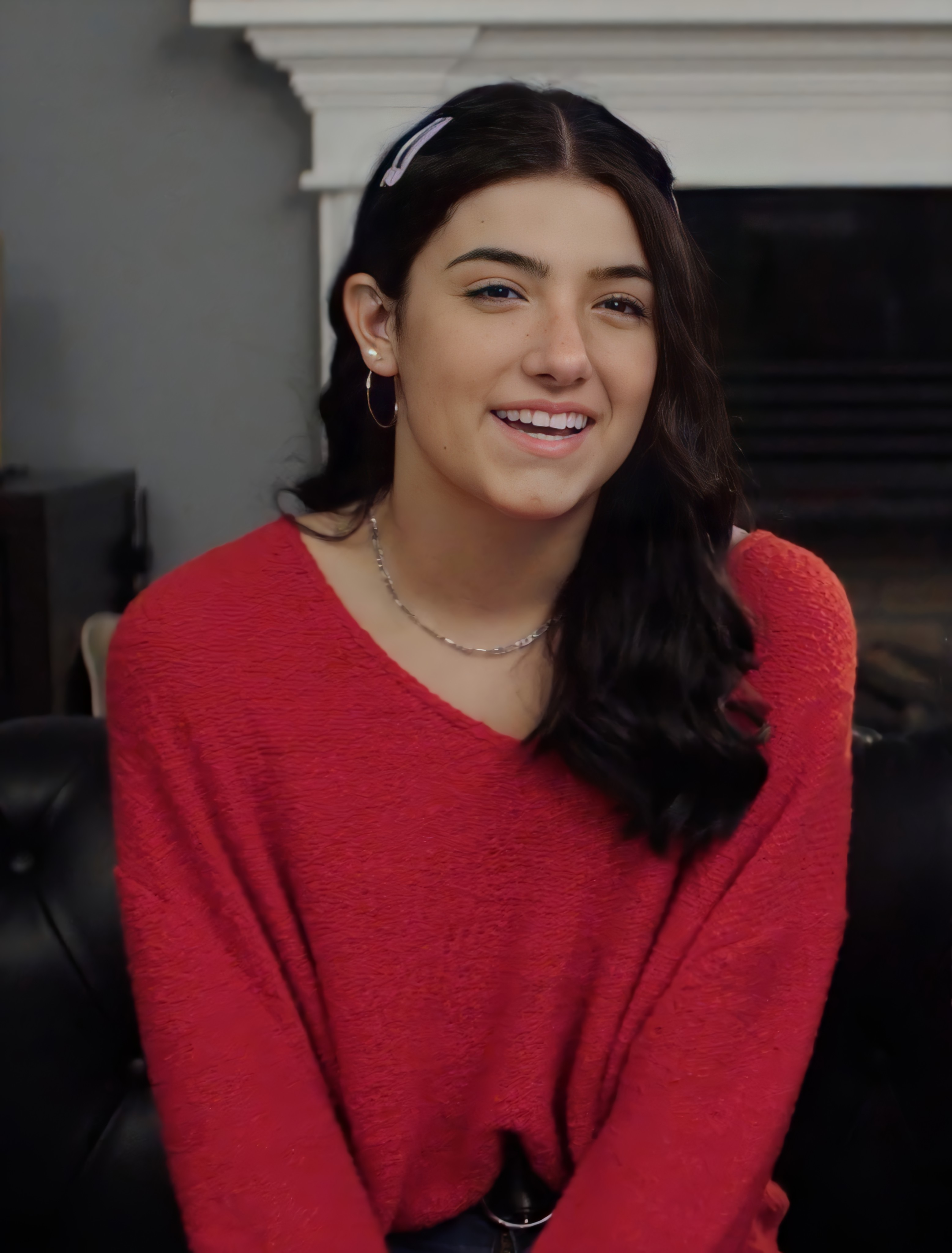 Charli D'Amelio in 2020